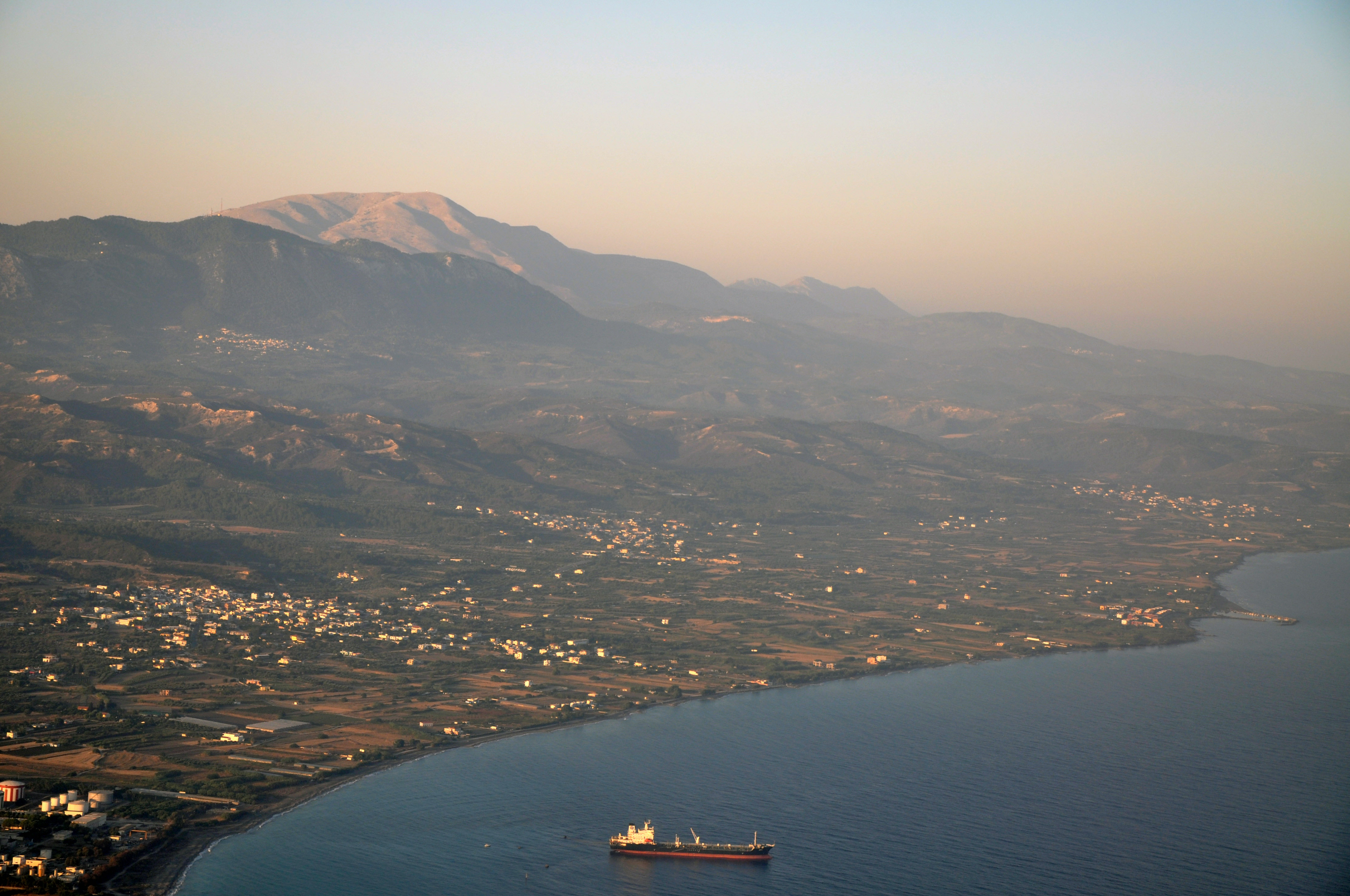 Rhodes from the airplane